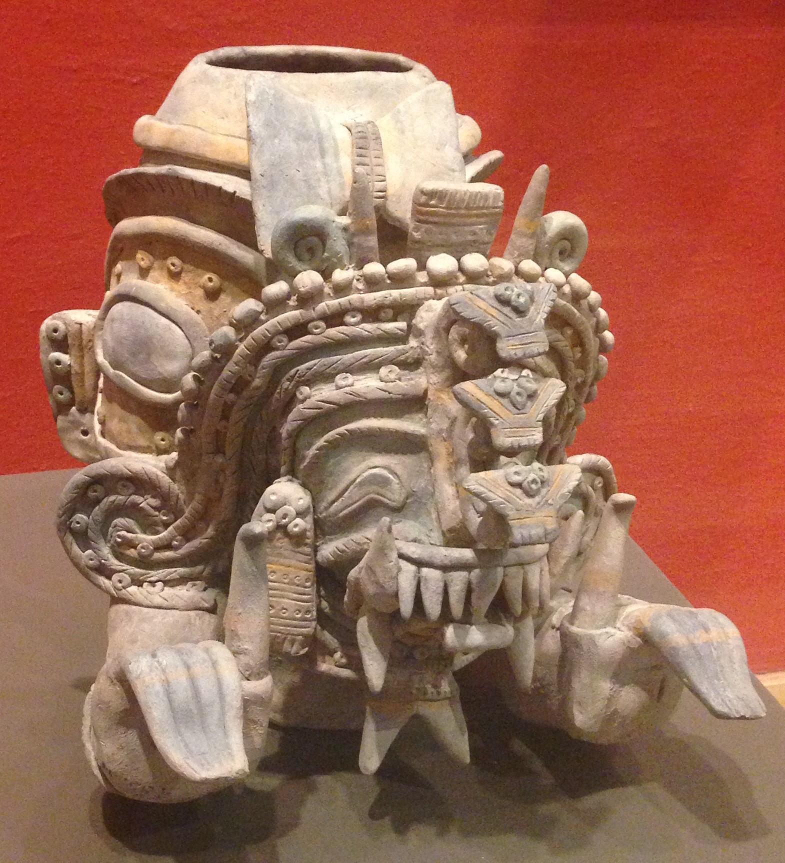 Jama-Coaque vessel with anthropomorphic creature, Museo Casa del Alabado, Quito, Ecuador